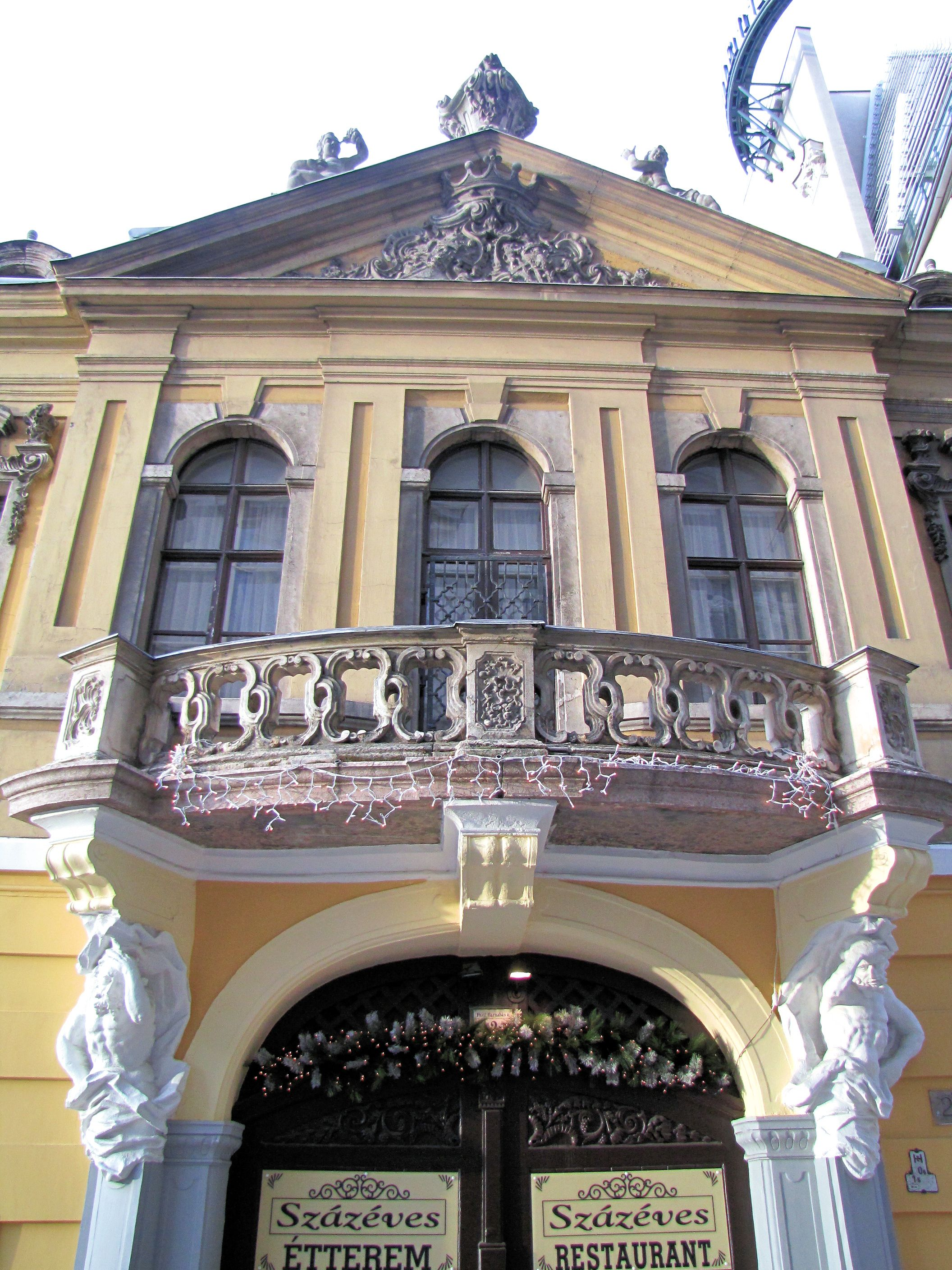 Péterffy Palace, Budapest, Március 15. square.